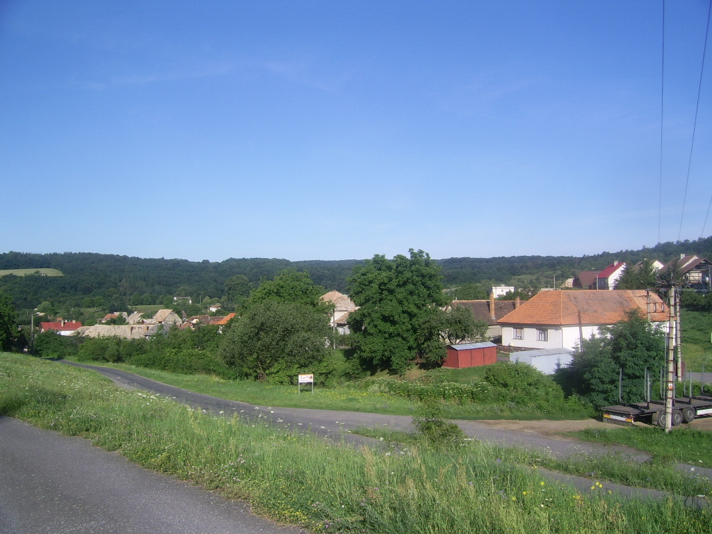 Devičie, Slovakia